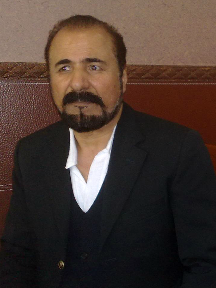 Photo of Kurdish singer Shivan Perwer